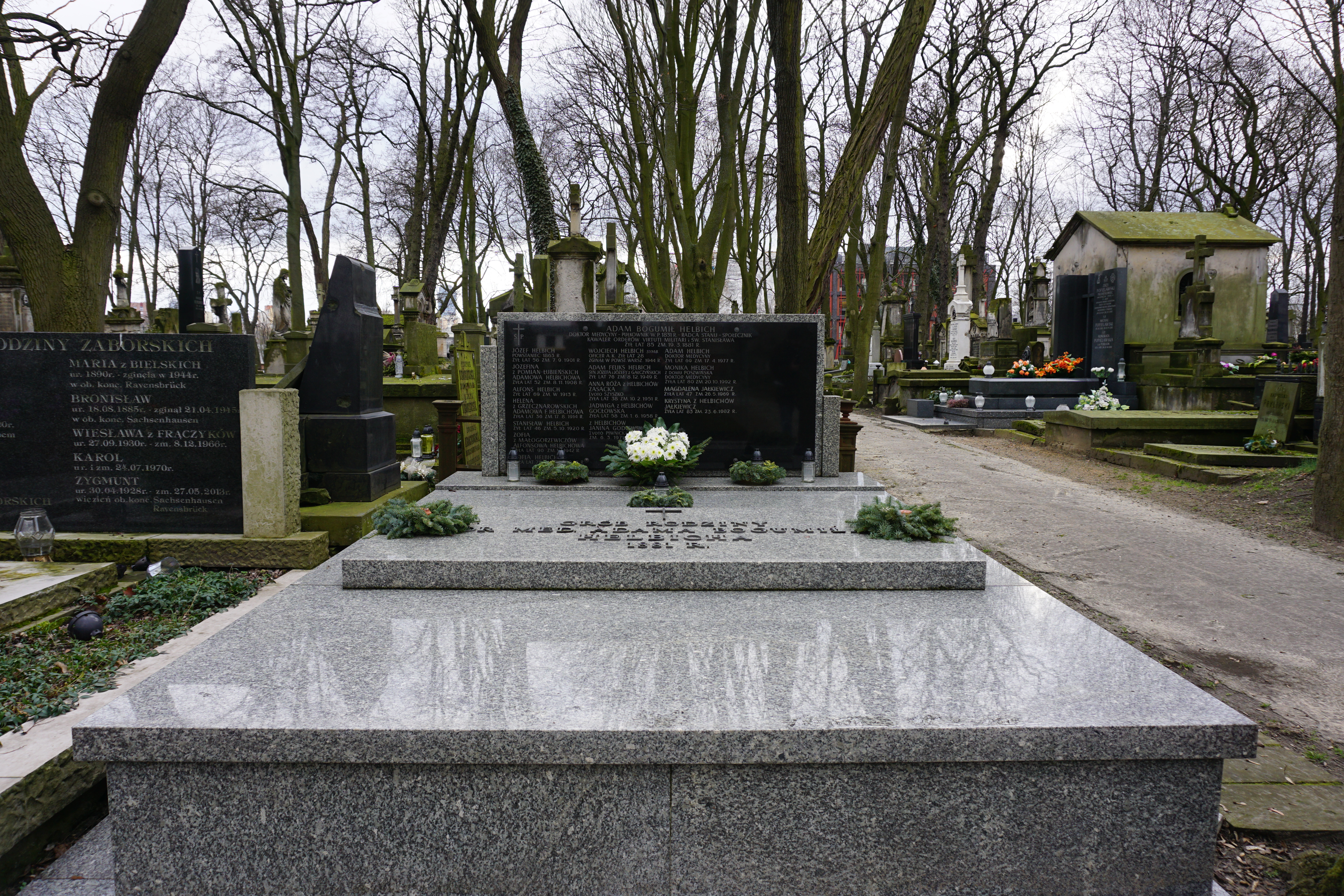 The grave of Adam Bogumił Helbich at the Powązki Cemetery (section 157, row 6, grave 1, 2, 3, 4)